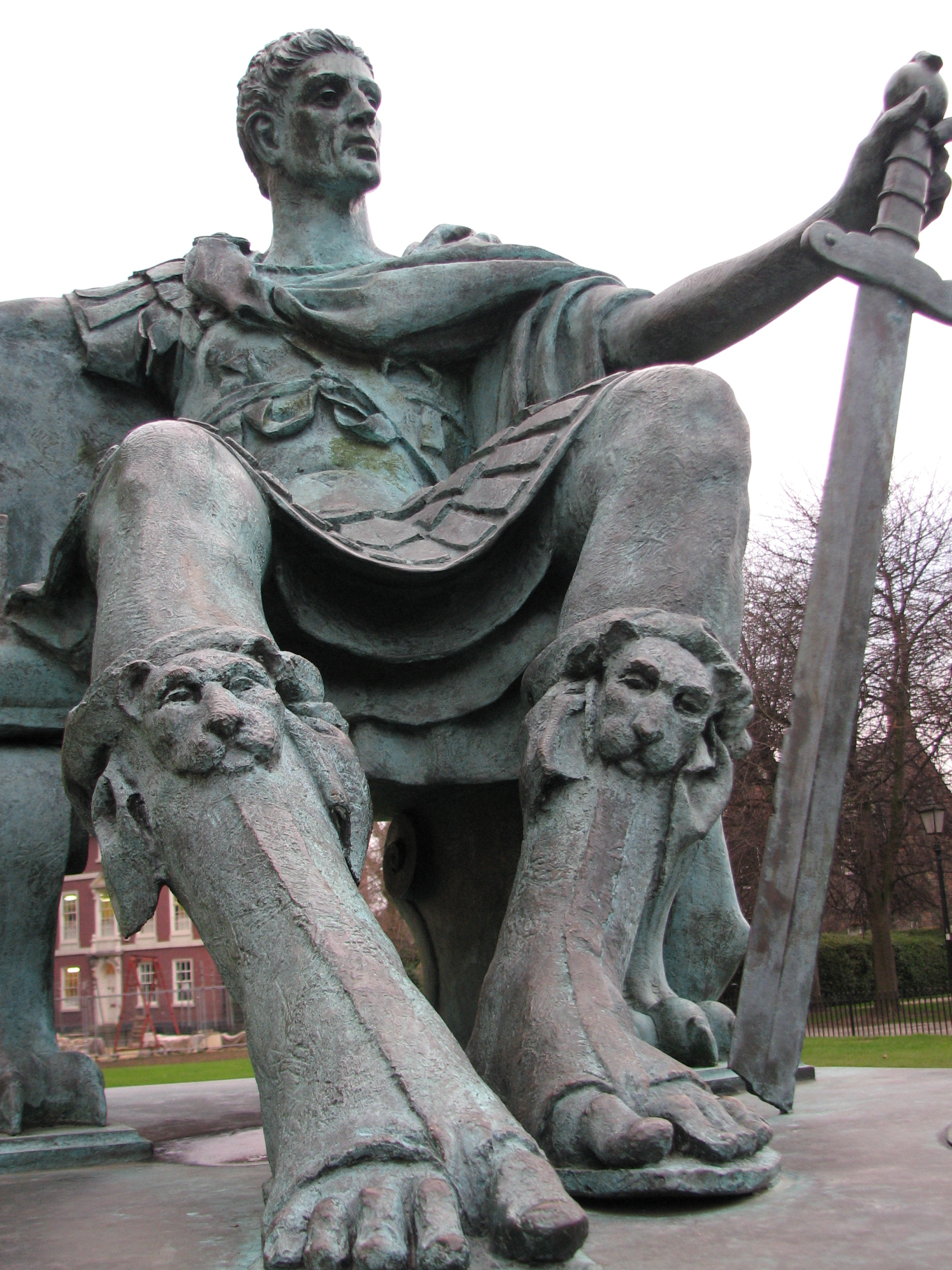 Constantin